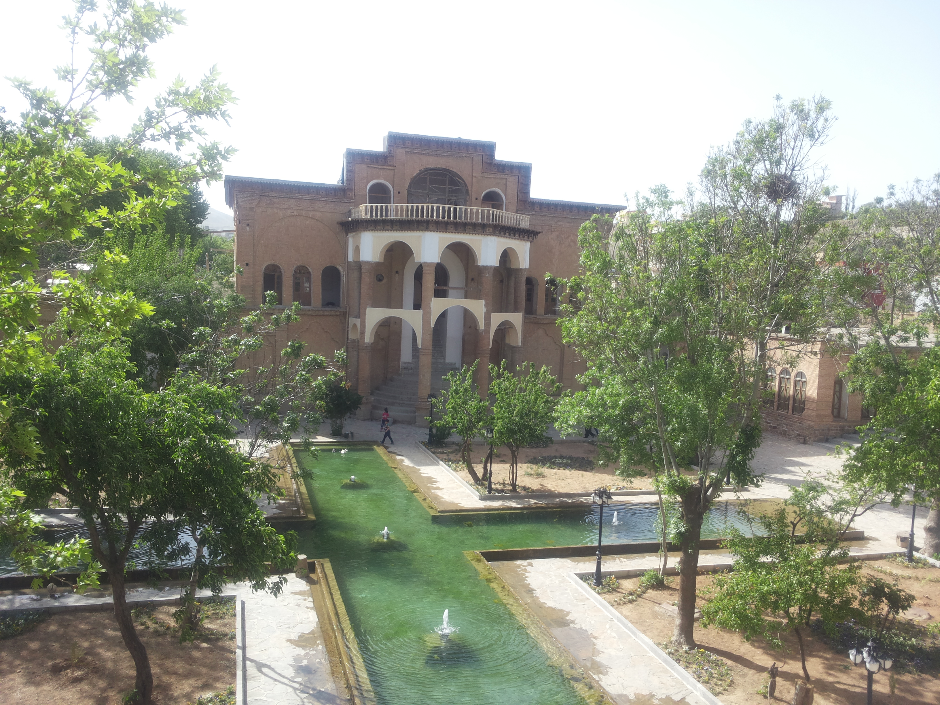 Xesrew Awa in 2015 spring.